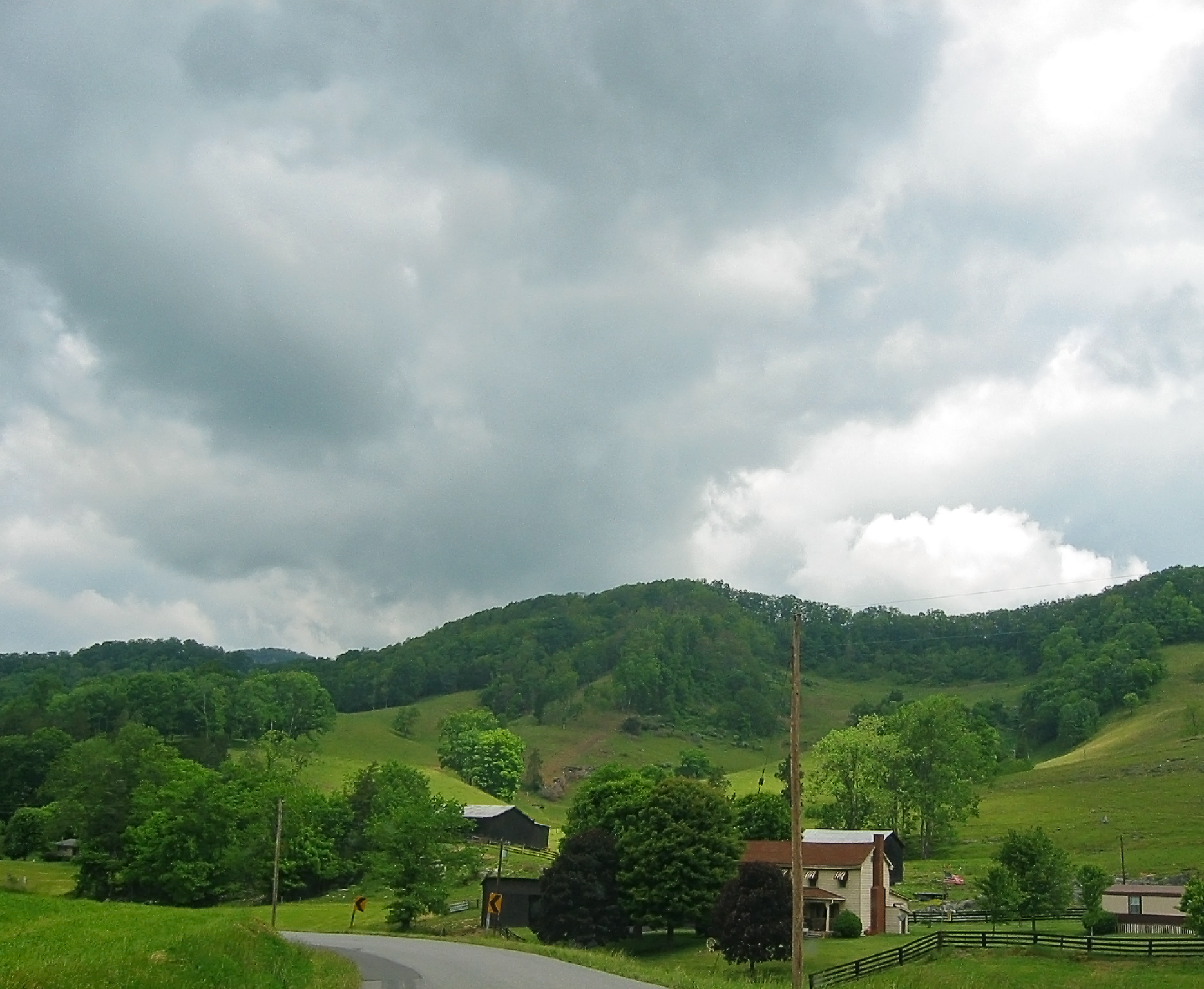 I'm going through photos from last year's trip to Appalachia, to supplement my writing up of the roadtrip tale on my blog. This is yet another snapshot through the car window, taken somewhere near Pennington Gap, Virginia. I was driving from the town of Norton to the Cumberland Gap, by way of the town of Appalachia, Pennington Gap, and then a tiny road -- route 659 along the stream Sugar Run, I think. Finally I took highway 58 to Cumberland Gap. Given the size of the road in this photo, I'm guessing this is along route 659, several miles west of Pennington Gap. This local live map shows the approximate location. It had rained recently. The hills were surprisingly lush and green.